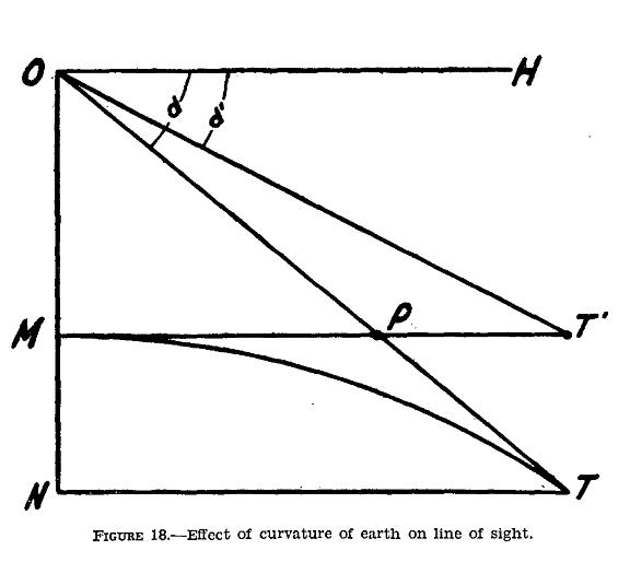 Diagram, illustrating sides and angles involved in measuring range with a Depression Position Finder (DPF) instrument